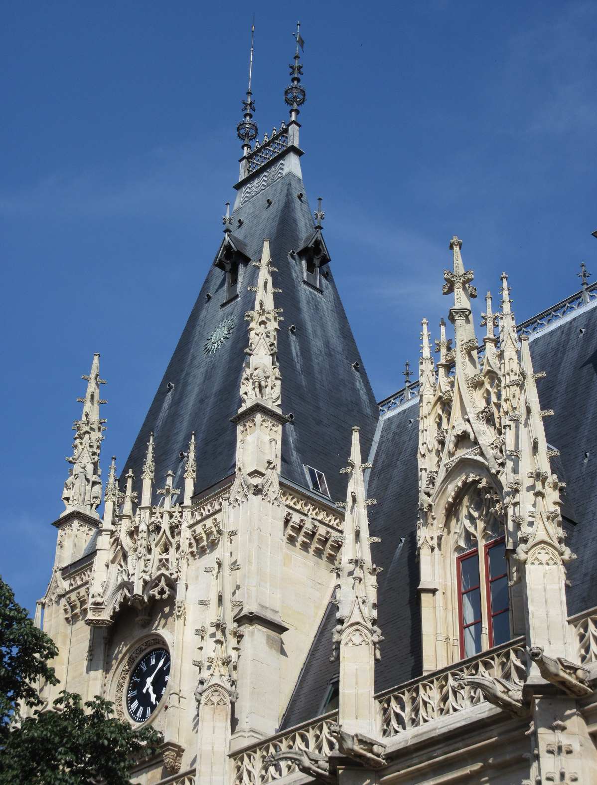 Law courts, Rouen, August 2009